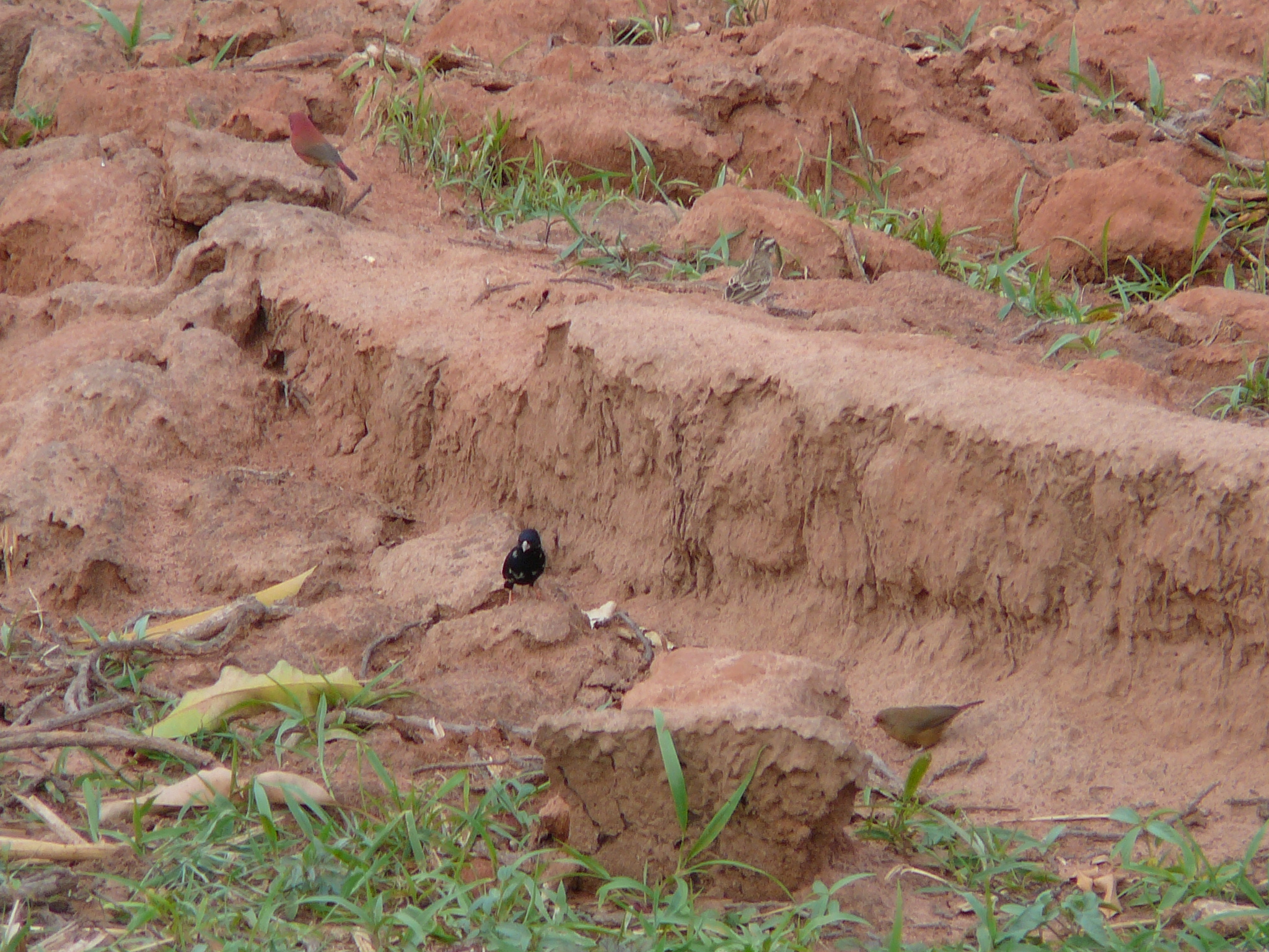 Village Indigobird and Red-billed Firefinches, Male and female of each species